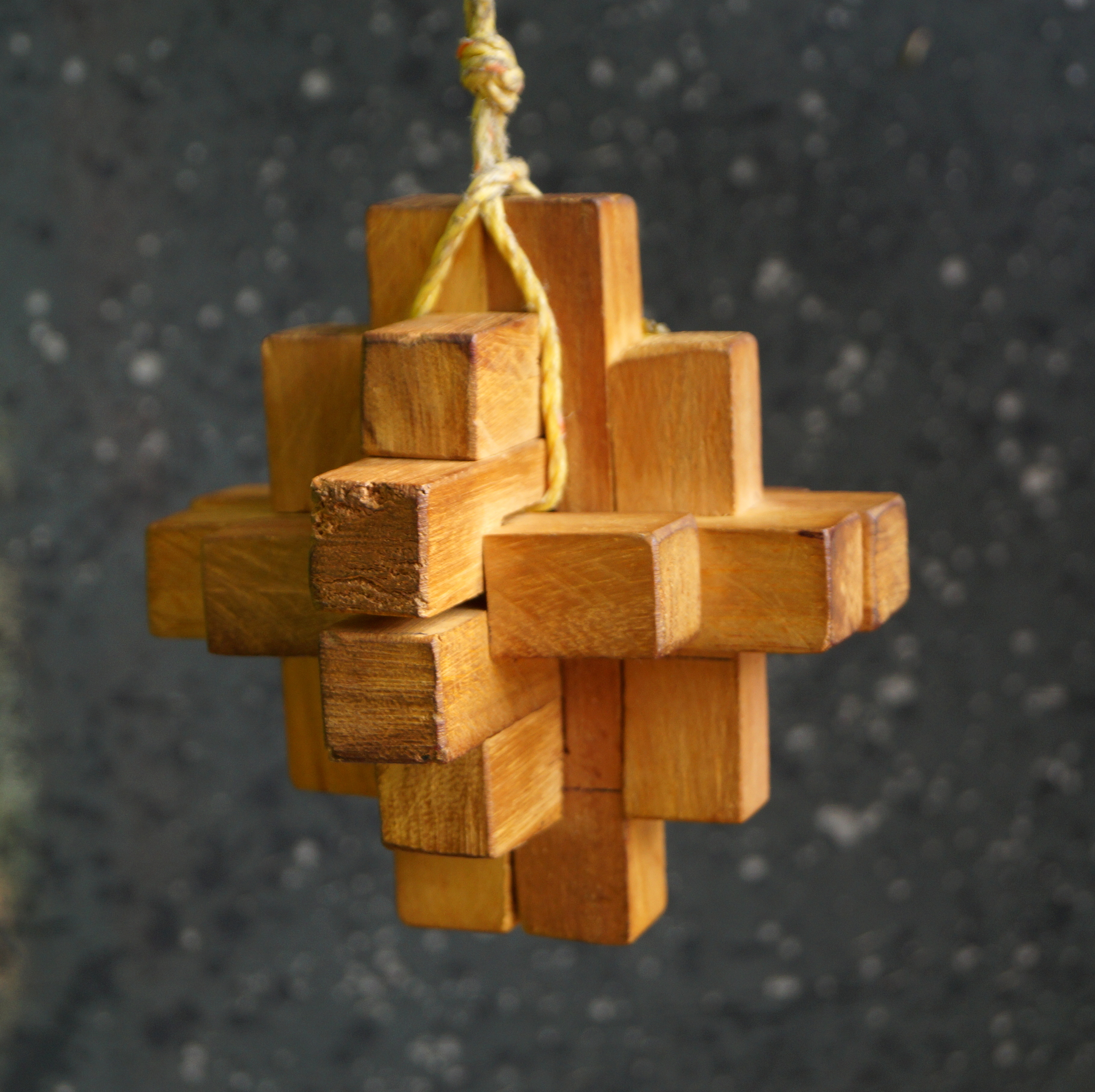 Edakoodam is a Traditional brain puzzle with Wood was popular in Kerala.